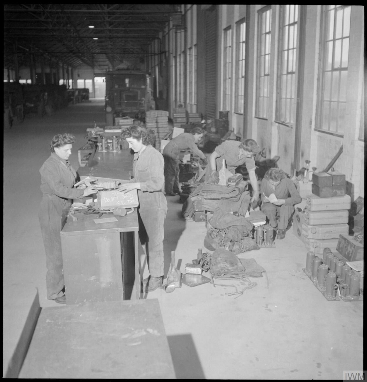 Invasion Build-up- Preparations For the D-day Landings, UK, 1944 Women of the ATS check vehicle in an Royal Army Ordnance Corps depot, somewhere in Britain, in preparation for the opening of the Second Front.